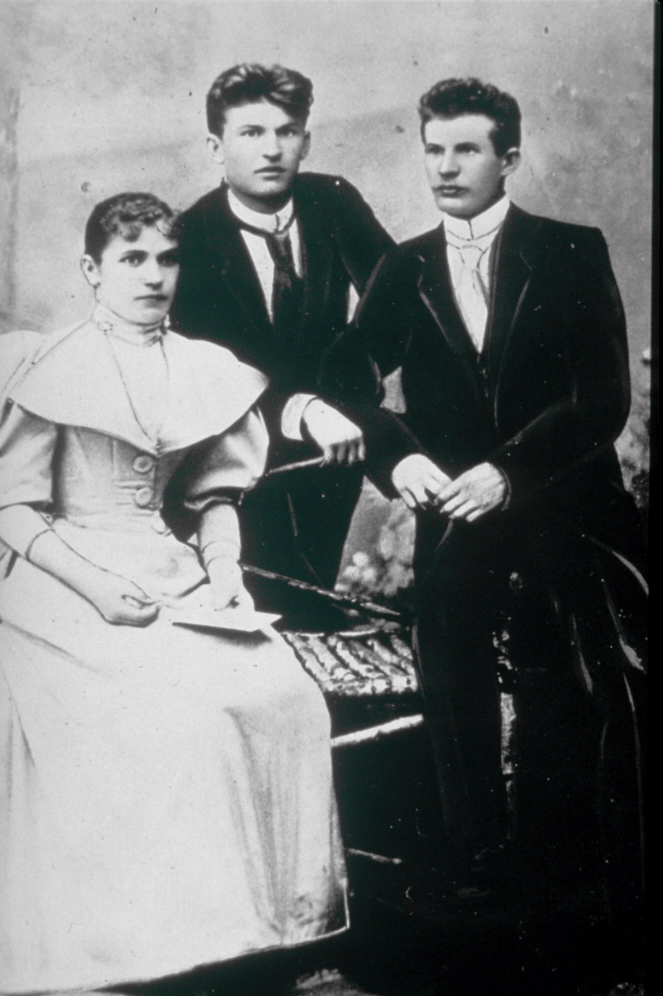 Tomáš, Antonín and their sister Anna Baťa